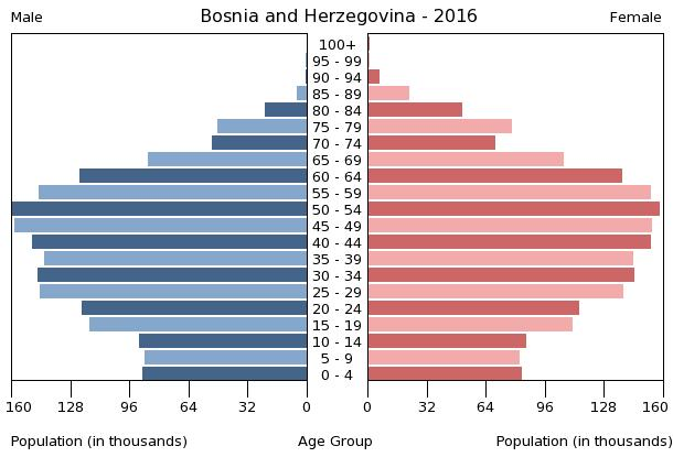 The population pyramid of Bosnia and Herzegovina illustrates the age and sex structure of population and may provide insights about political and social stability, as well as economic development. The population is distributed along the horizontal axis, with males shown on the left and females on the right. The male and female populations are broken down into 5-year age groups represented as horizontal bars along the vertical axis, with the youngest age groups at the bottom and the oldest at the top. The shape of the population pyramid gradually evolves over time based on fertility, mortality, and international migration trends.